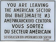 You are leaving the American sector